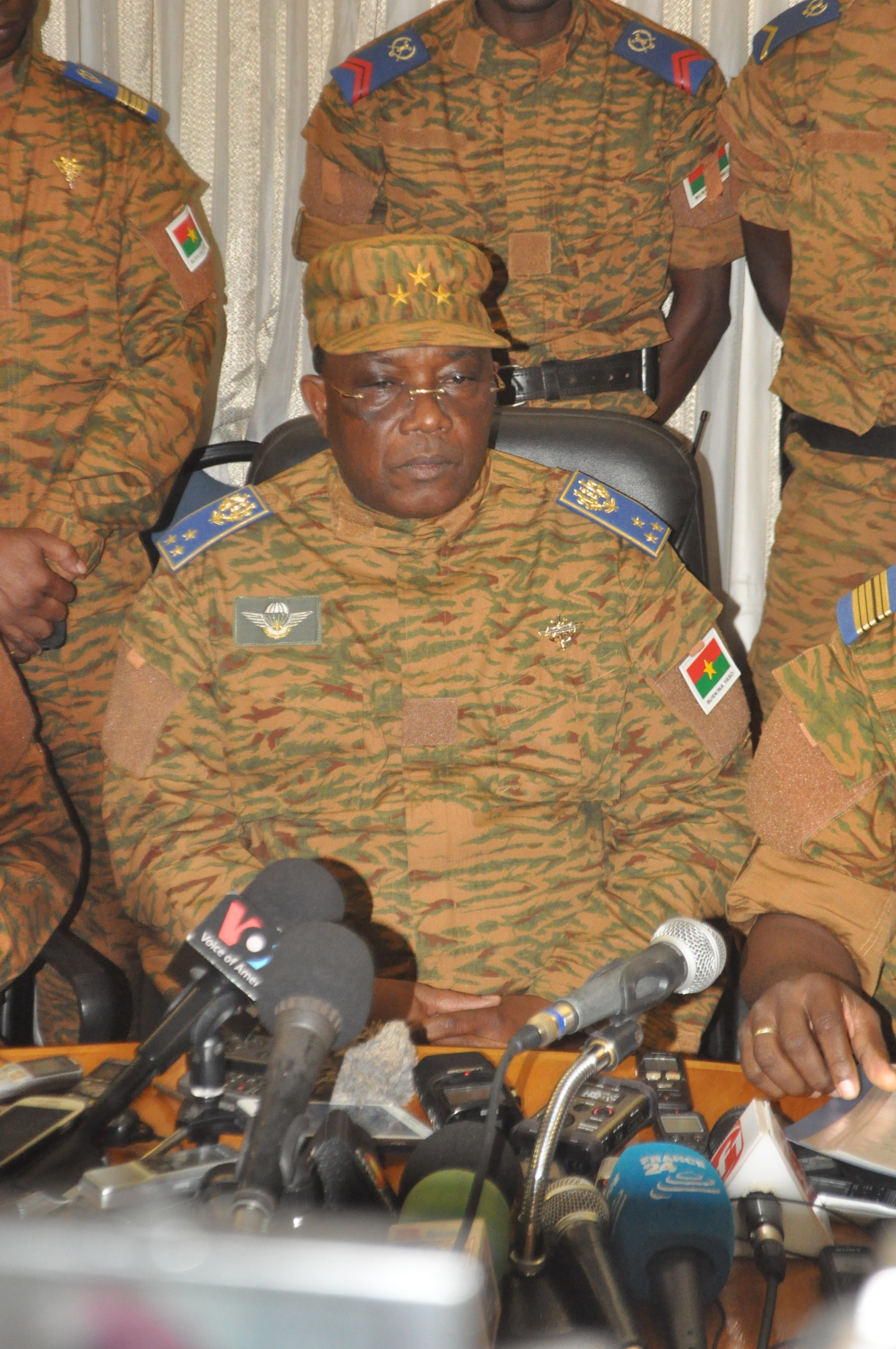 General Honore Traore, the head of Burkina Faso's armed forces, took power on Friday after Compaore resigned amid mass demonstrations against an attempt to extend his 27-year rule in the West African country.